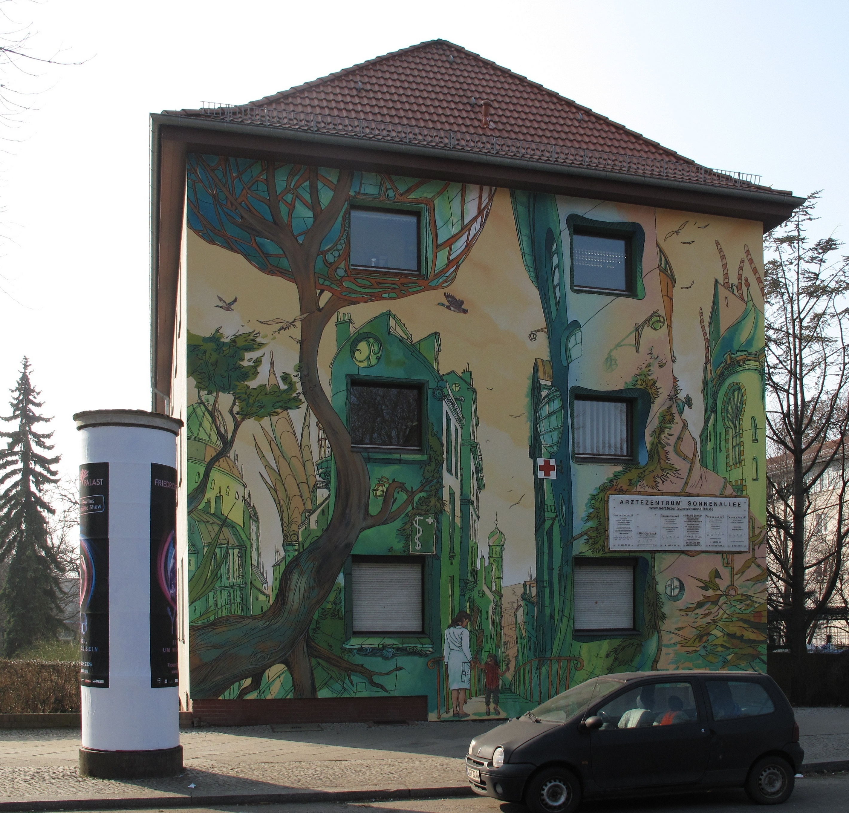 Mural in Berlin-Neukölln, created by the french artist group CitéCréation. The work in the Sonnenallee No. 307 was unveiled on 1 November 2010.